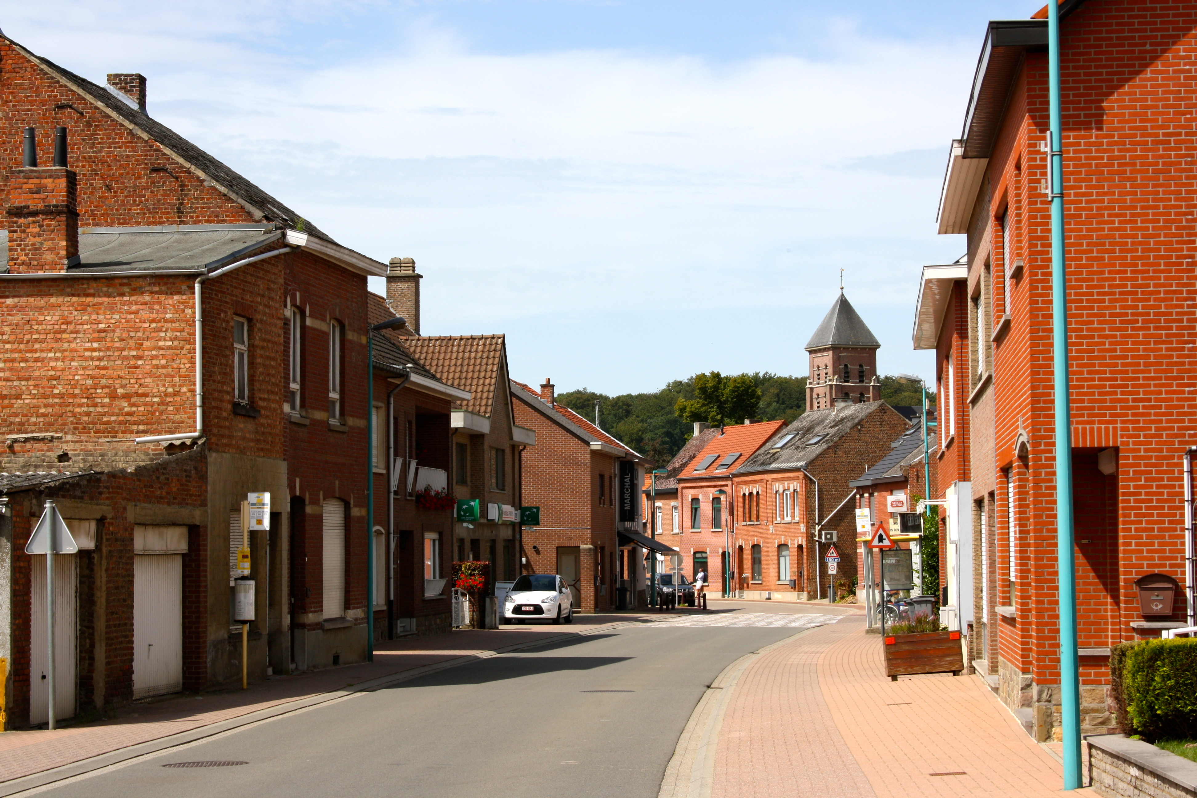 Gemeentestraat in Linden, Belgium.